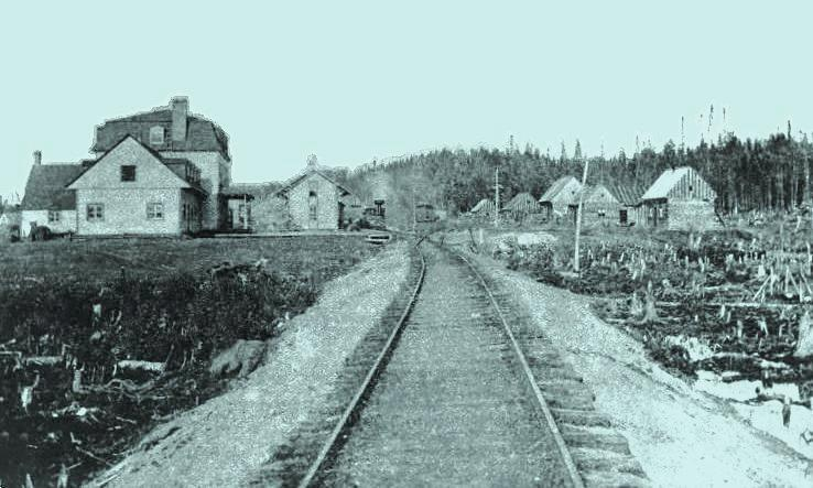 Print, Hotel and station, Lake Edward, Lake Saint John region, QC, about 1910, Anonymous. Ink on paper mounted on paper - Halftone - 12 x 18 cm